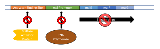 This is a diagram of a maltose operon when maltose is not present in E. coli. Because maltose is not present, transcription of the maltose genes, malE, malG, and malF will not occur.